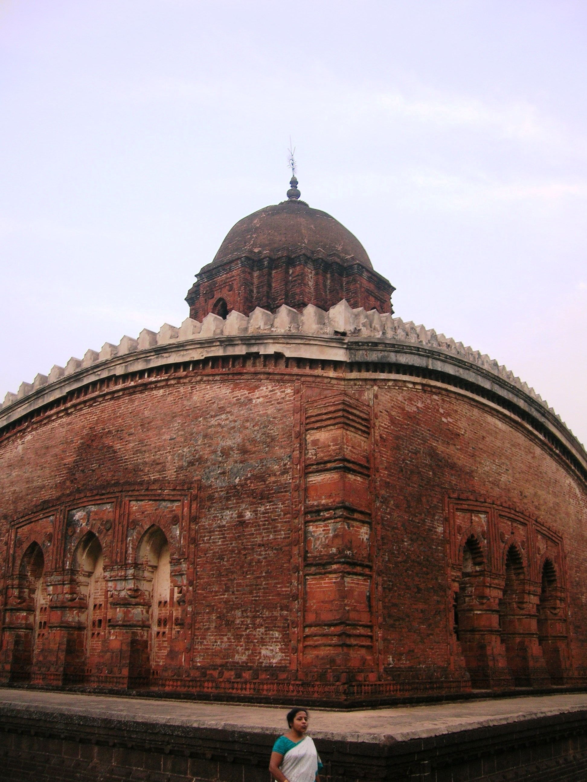 Madan Mohan Temple (c. 1694), Bishnupur, Bankura dist., West Bengal, India.